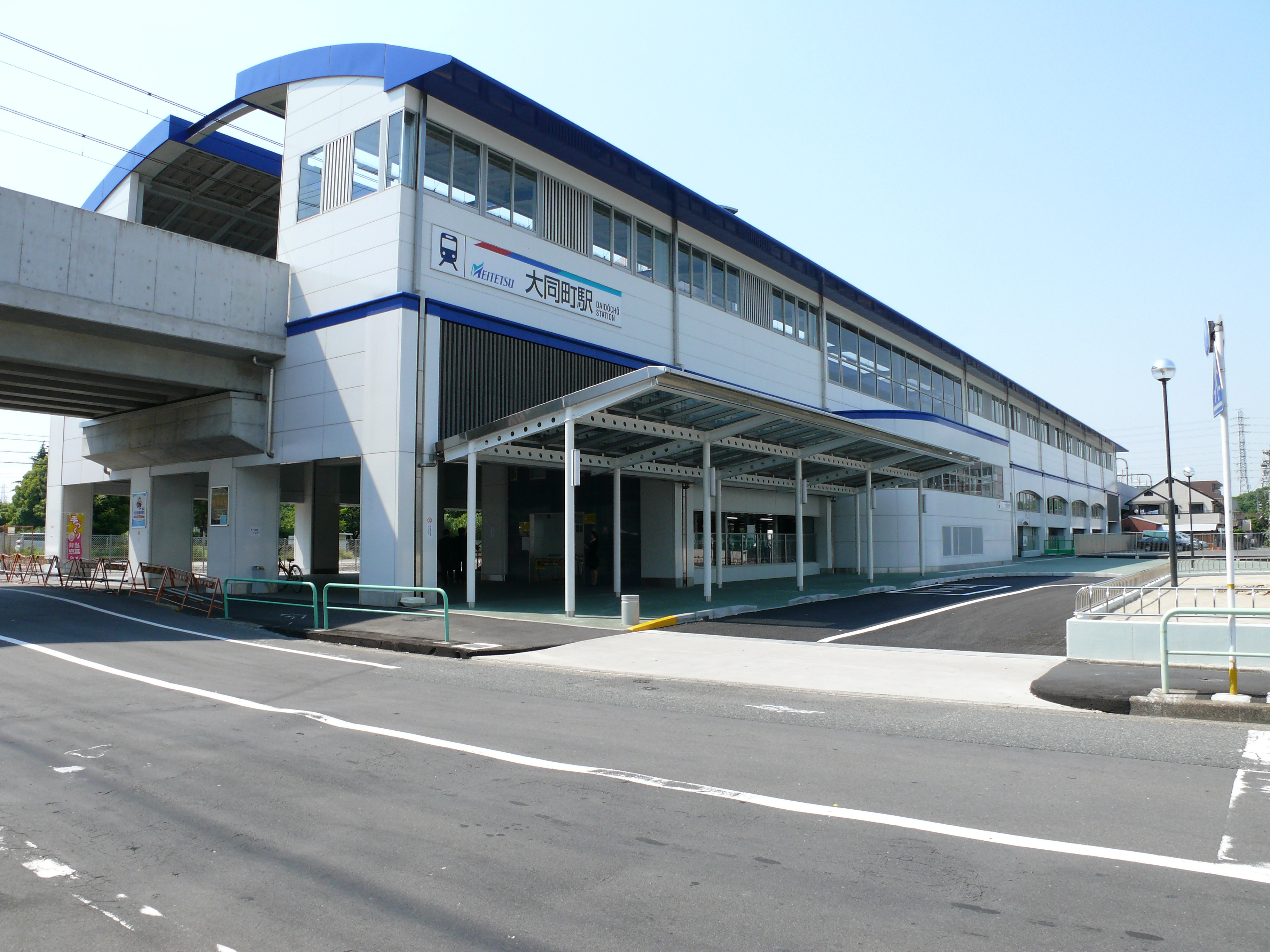 Meitetsu Daidocho Station.